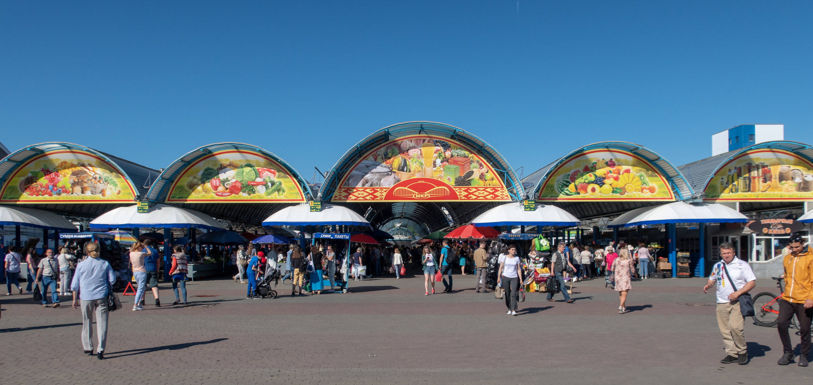 Kamaroŭski market (Minsk, Belarus)